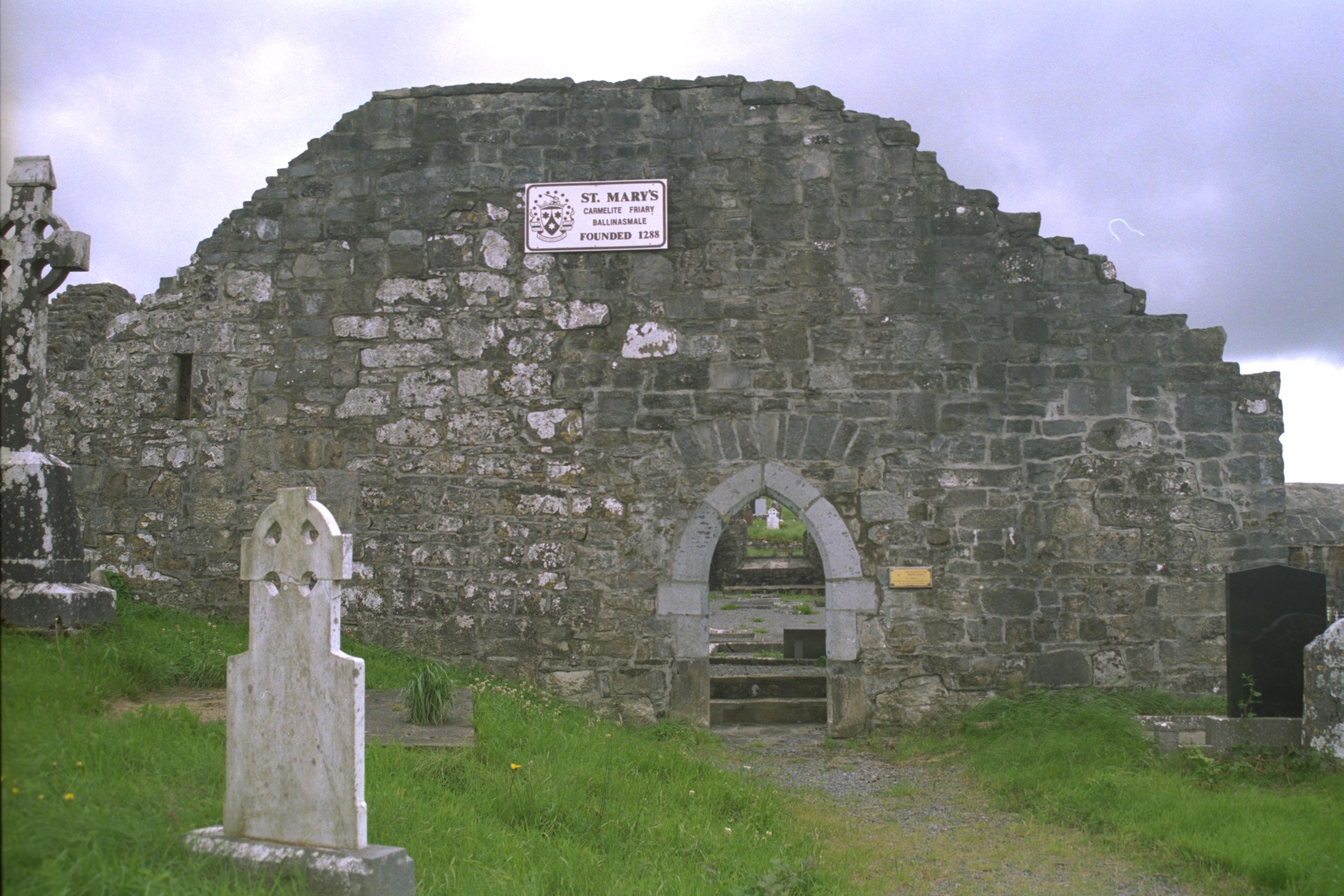 Ballinasmall Friary, County Mayo, Ireland Carmelite Friary, founded 1288